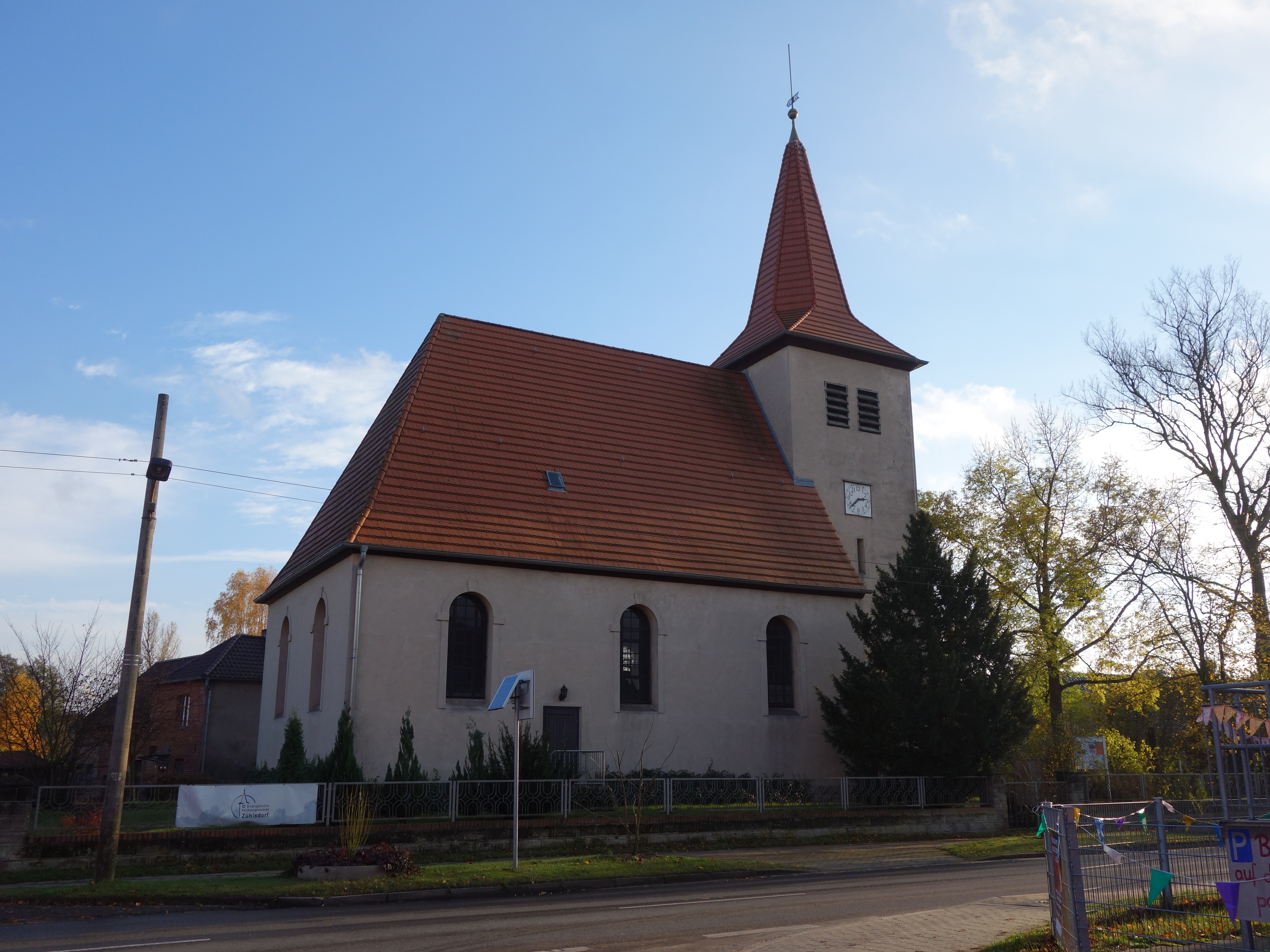 North-eastern view of church in Zühlsdorf, Mühlenbecker Land municipality, Oberhavel district, Brandenburg state, Germany